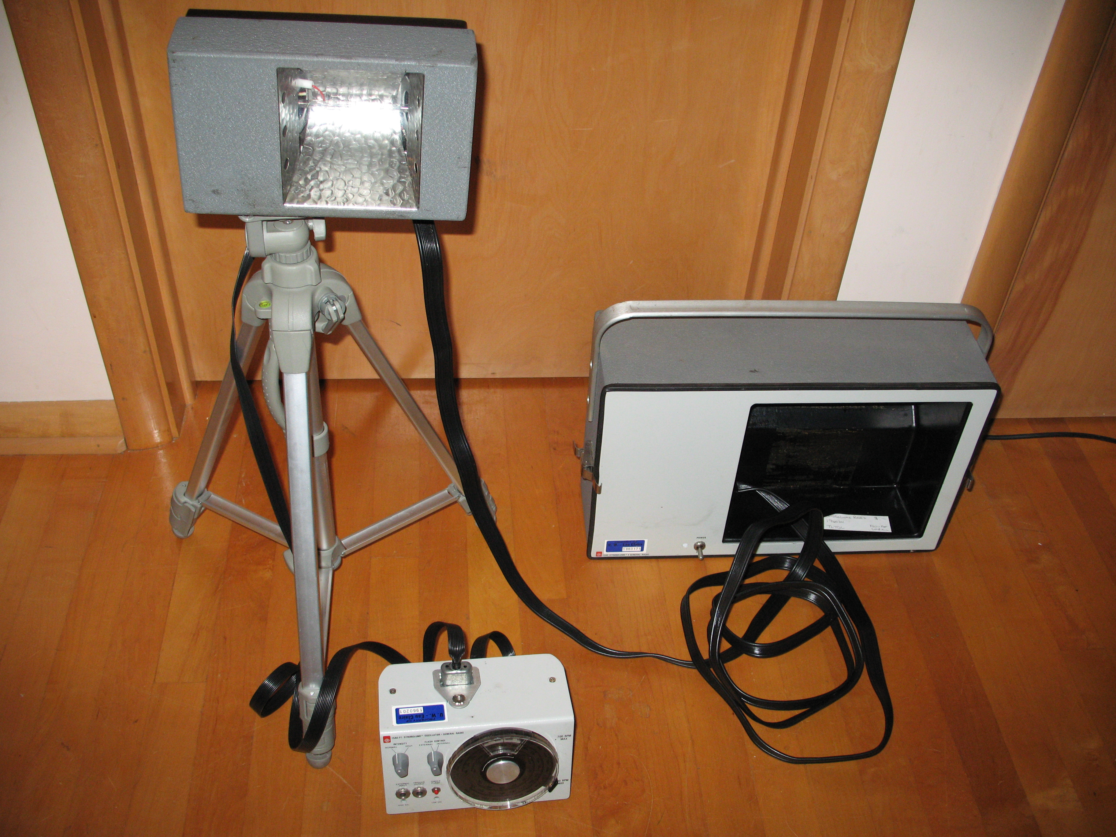 This is a picture of the 1540 Strobolume, a professional grade stroboscope produced by the General Radio Corporation. The base unit contains a heavy power supply The strobe head has a fan for cooling the lamp The control box has external input/output, a manual trigger button, and settings for fixed flash rates from 100 flashes per minute (FPM) to 25,000 FPM. The control box can be directly attached to the back of the strobe head without a cable, so that together they form a compact unit for carrying.